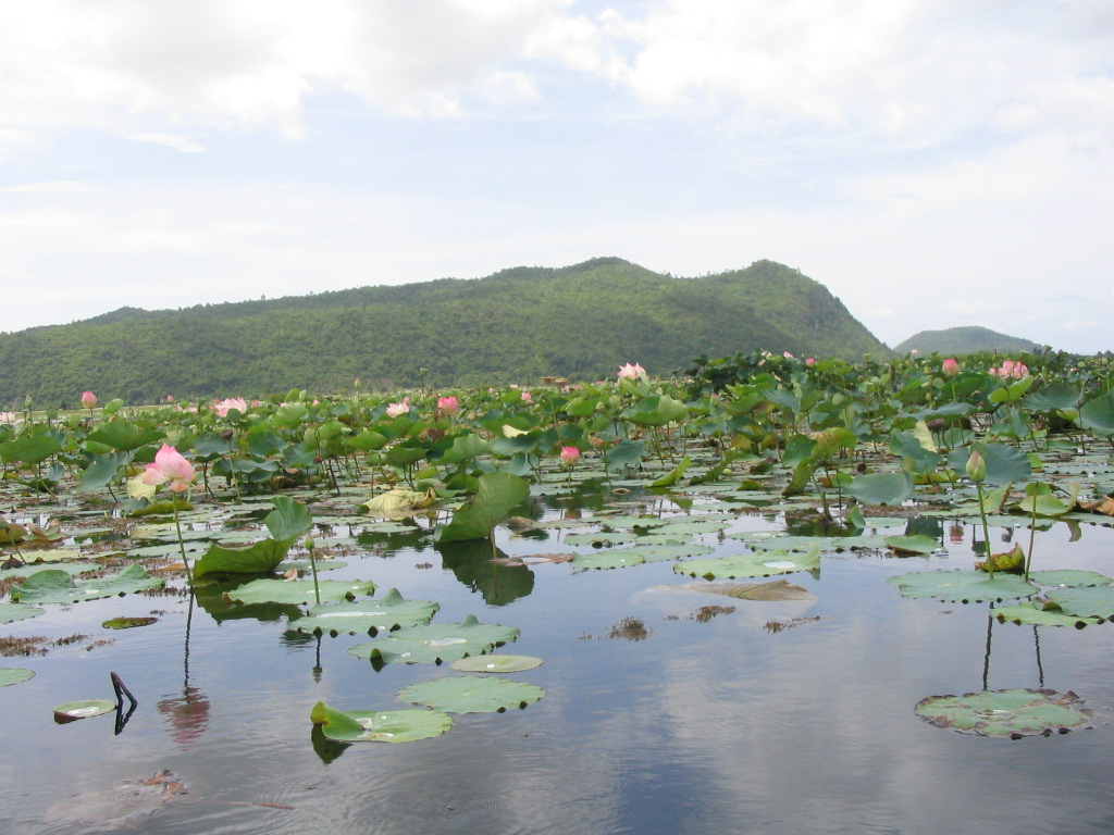 Lotus Lake Kamping Puy